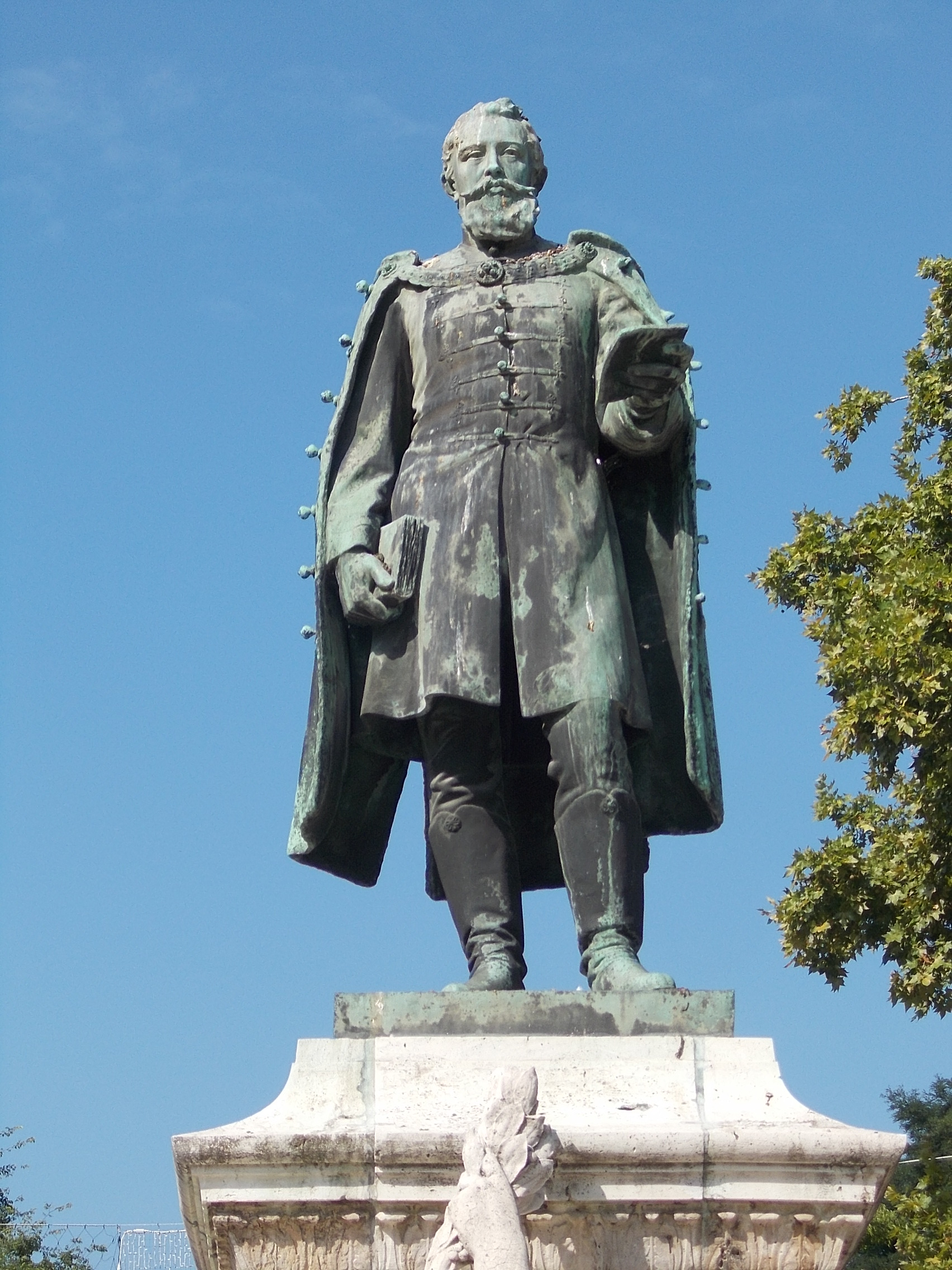 Garay monument. Casted by Gruet company (Paris) - Garay Square, Szekszárd, Tolna County, Hungary.